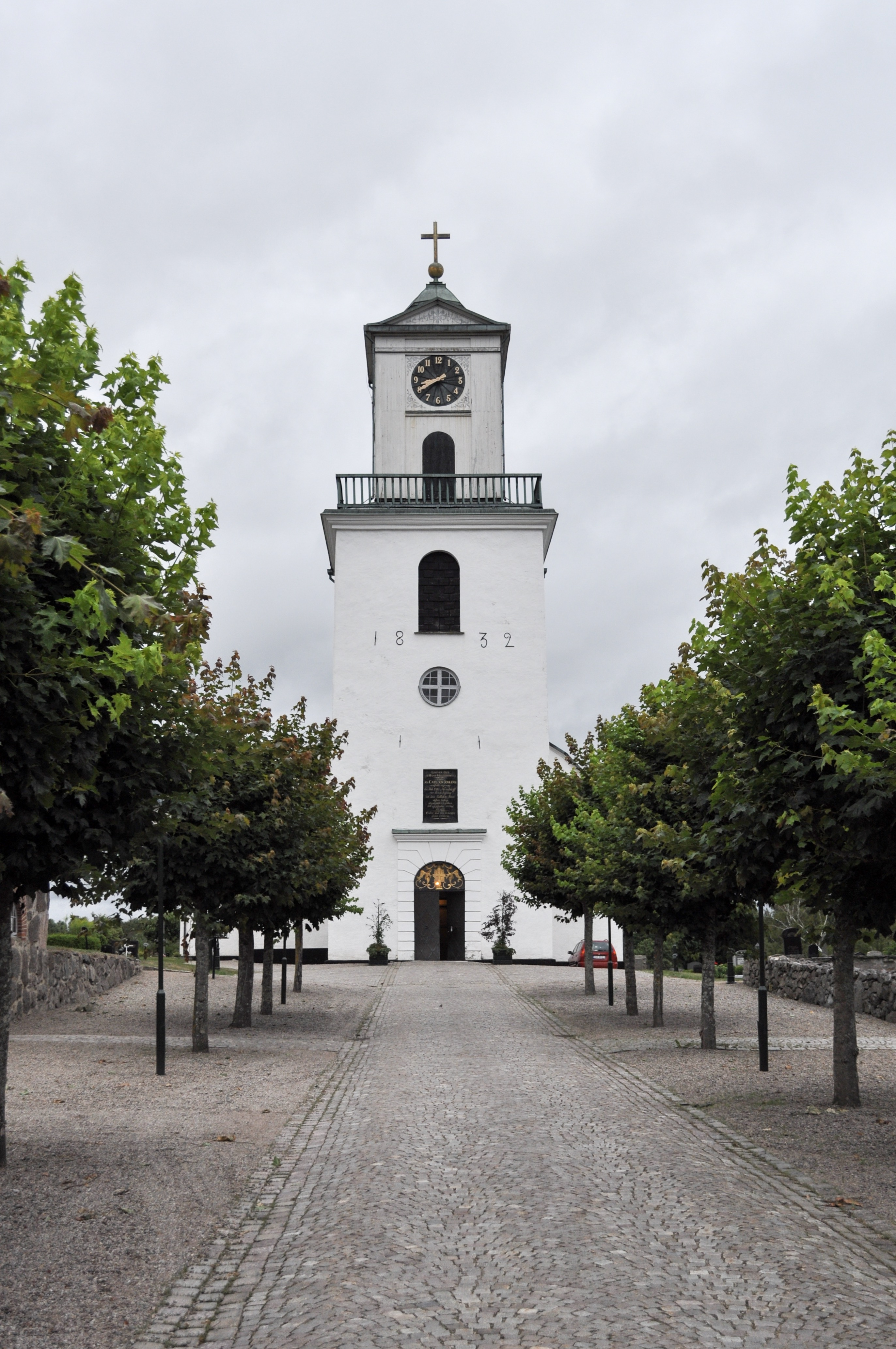 Jämshög church - kyrka